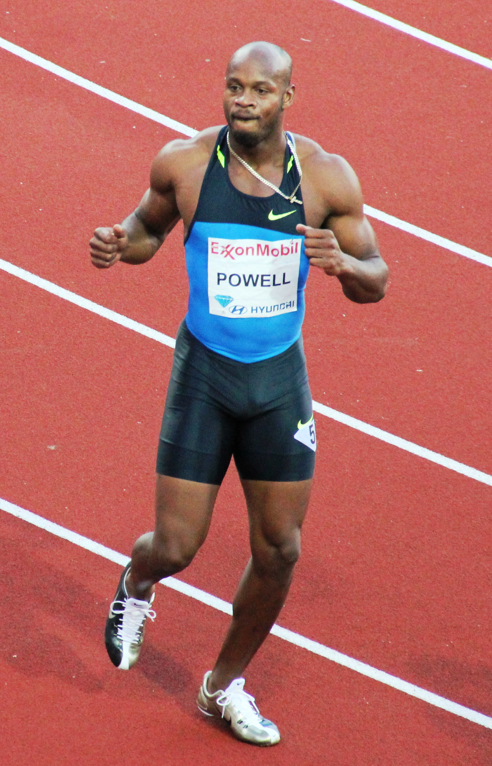 Asafa Powell after his 9.72 win and track record at the 2010 Bislett Games.